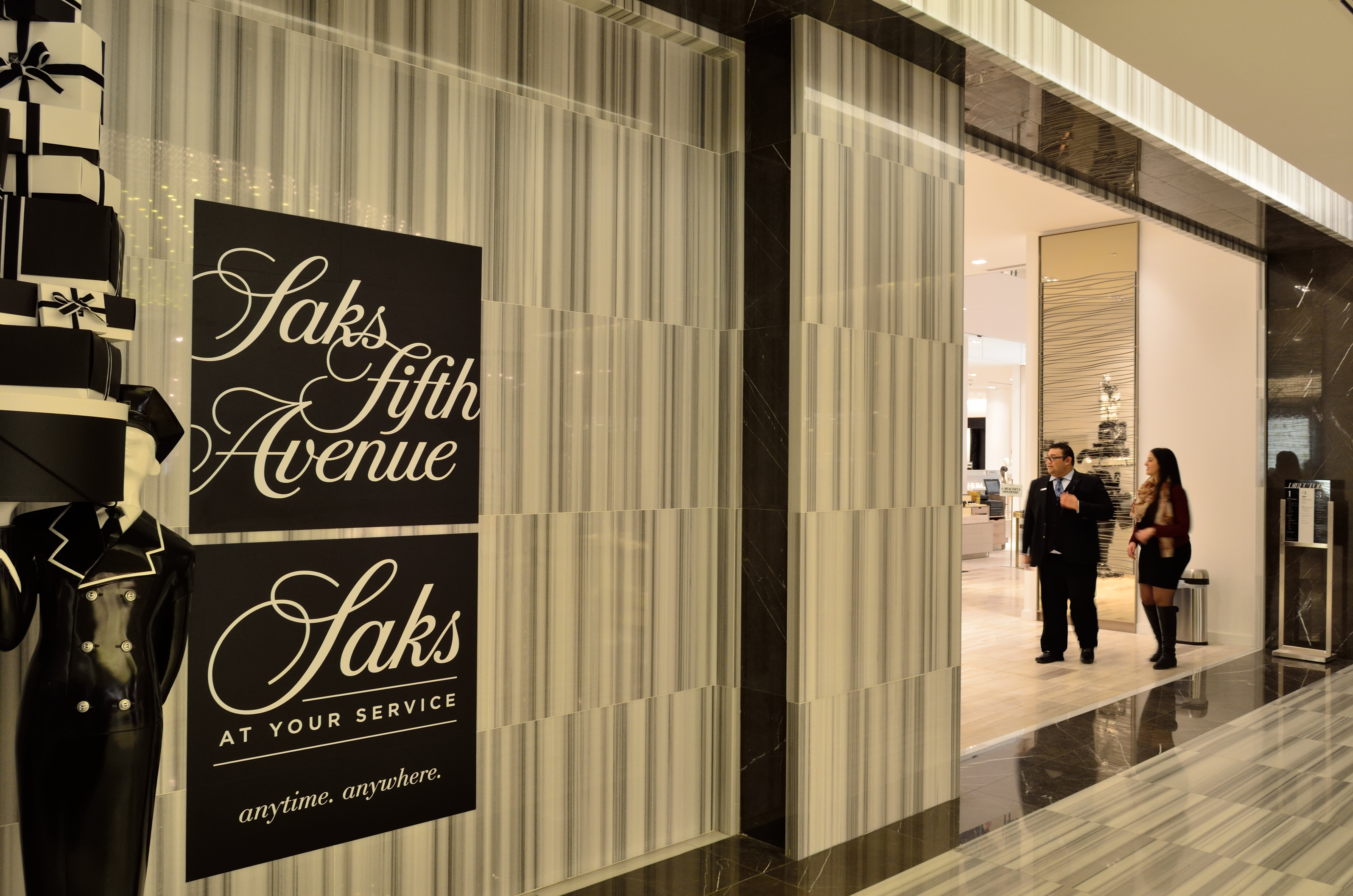 Saks Fifth Avenue in Toronto